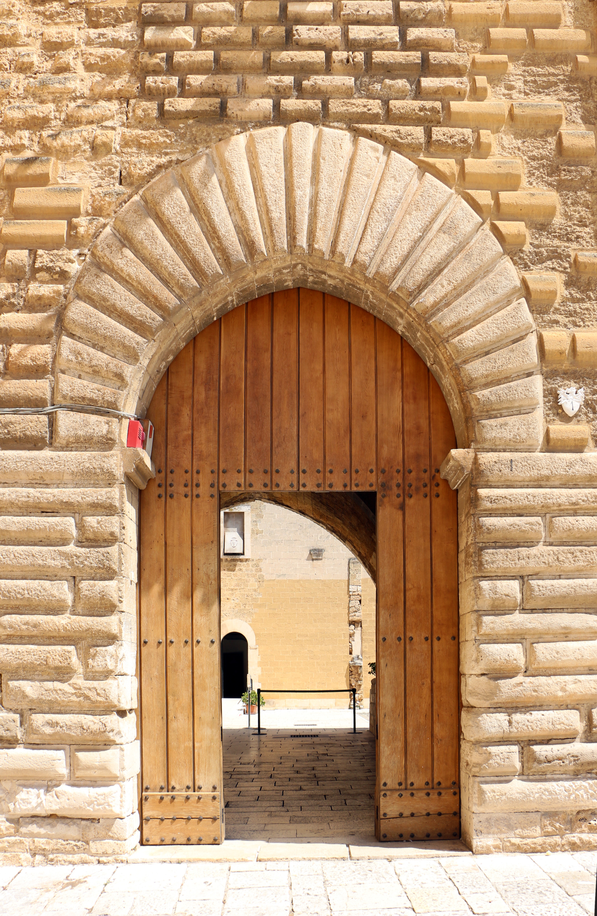 Castello normanno-svevo (Gioia del Colle)